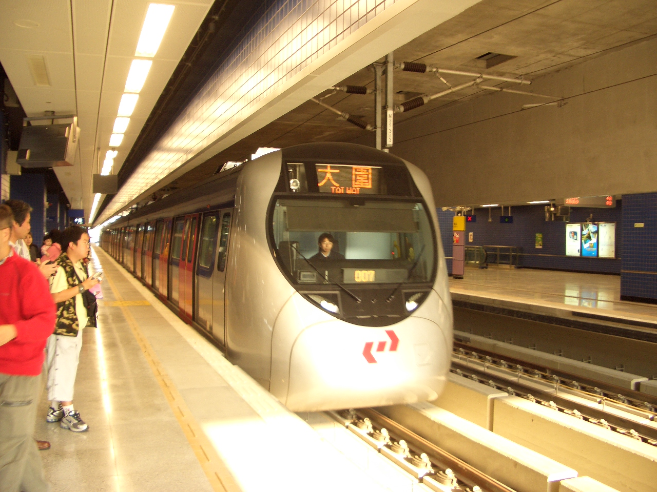 This photo is taken on December 19, 2004, the trial ride day of Ma On Shan Rail.中文（香港）: 馬鞍山鐵路慈善試搭日當天。一輛往大圍方向的馬鞍山鐵路列車，在大圍站落客後正駛離車站，前往車廠掉頭。